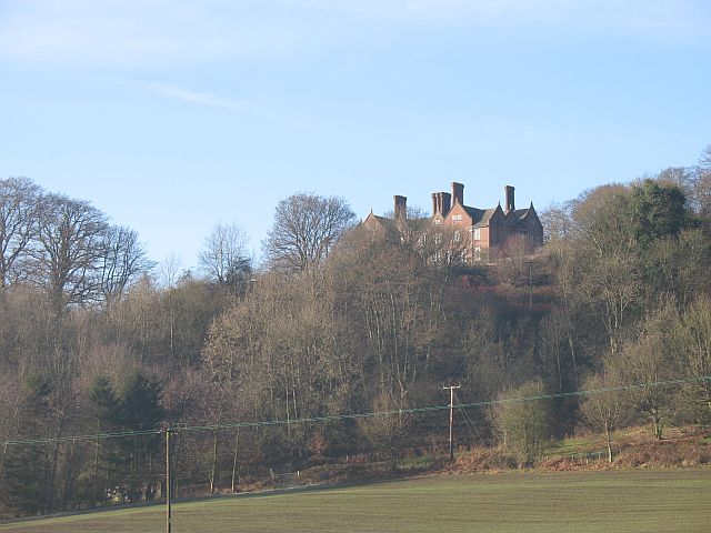 Gatley Park Built c. 1630